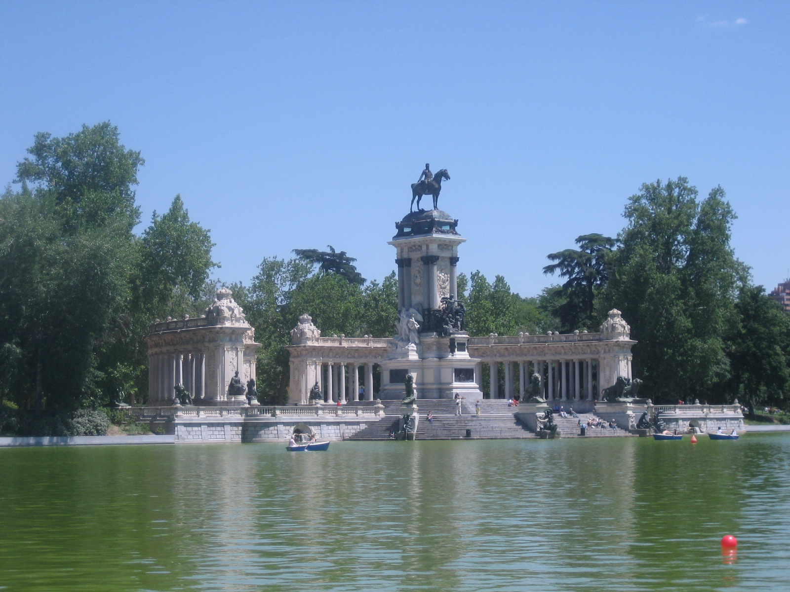 Pond and Monument to Alfonso XII of Spain in the Retiro Park (Jardines del Buen Retiro) in Madrid. It was projected in 1901 by architect José Grases Riera, built of stone and bronze from 1902 to 1922, and inaugurated on July 3rd, 1922. Sculptures were made by 22 artists.